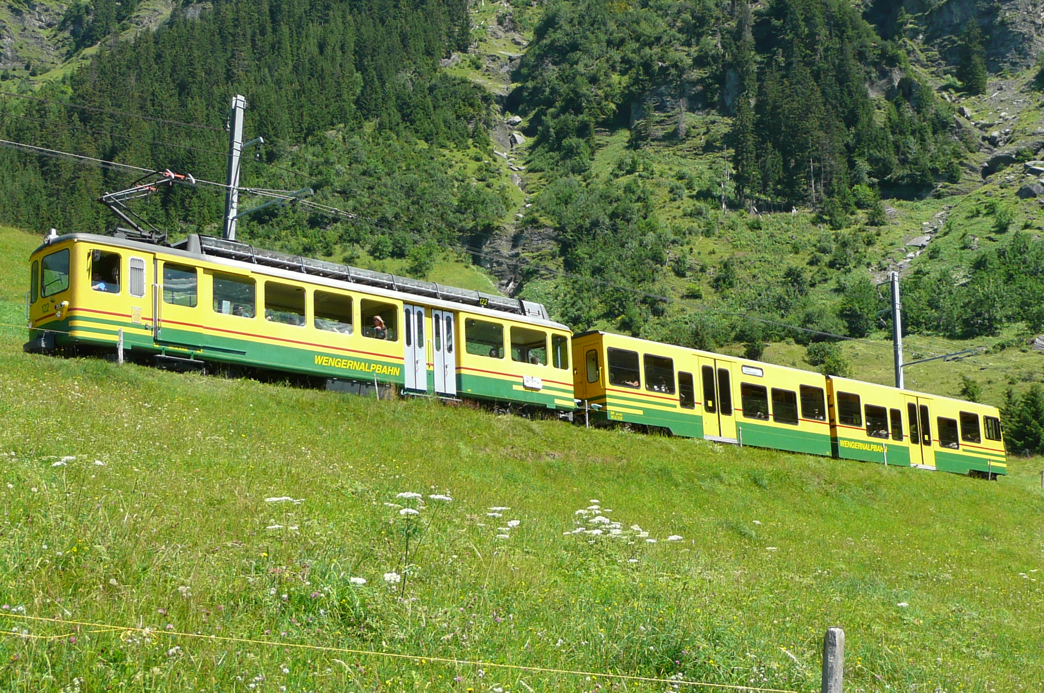 Wengernalp rack railway summer shuttle train composition since 1998 motor coach BDhe 4/4 122 of 1970 and control cab coach series Bt6 241-244 of 1998. Line Lauterbrunnen-Kleine Scheidegg – 2009-08-05